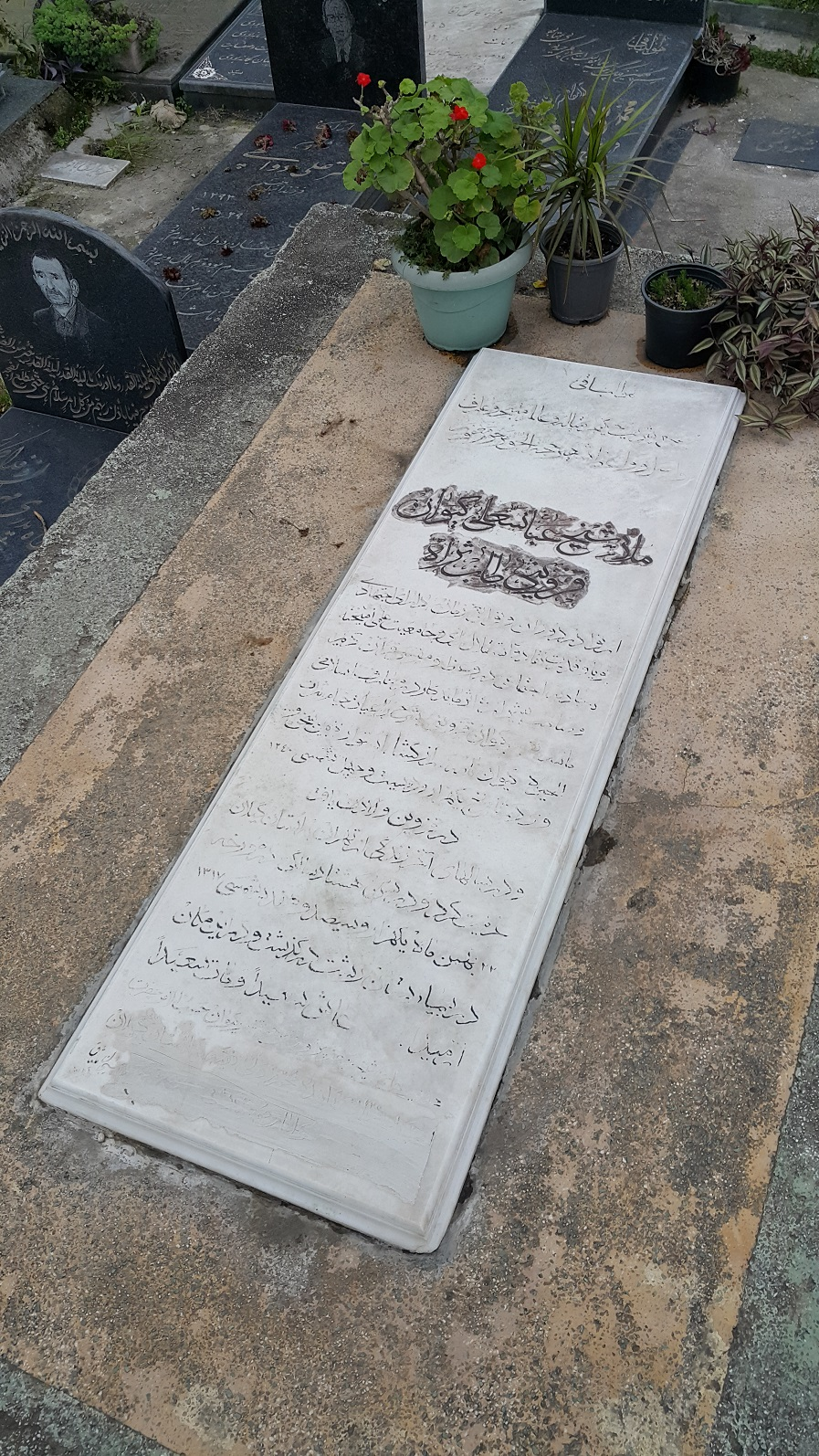 Soleiman Darab